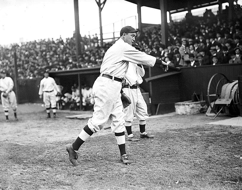 "Bugs Raymond, New York, NL (baseball)" A 1911 image, from the Bain News Service, of Bugs Raymond, a baseball player.